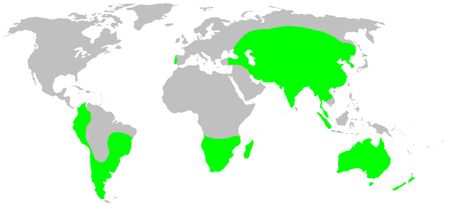 Nemesiidae habitat distribution, drawn after Platnick: World Spider Catalog 7.0. This is not a precise rendering of the distribution! If you have better information, please replace this map, or send me the info, so i will redraw it.